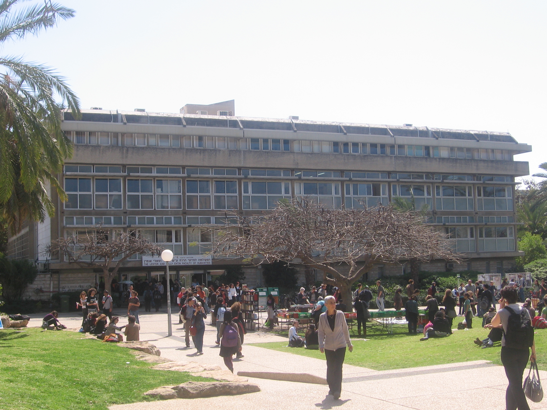 Entin faculty of humanities in Tel Aviv University (TAU).